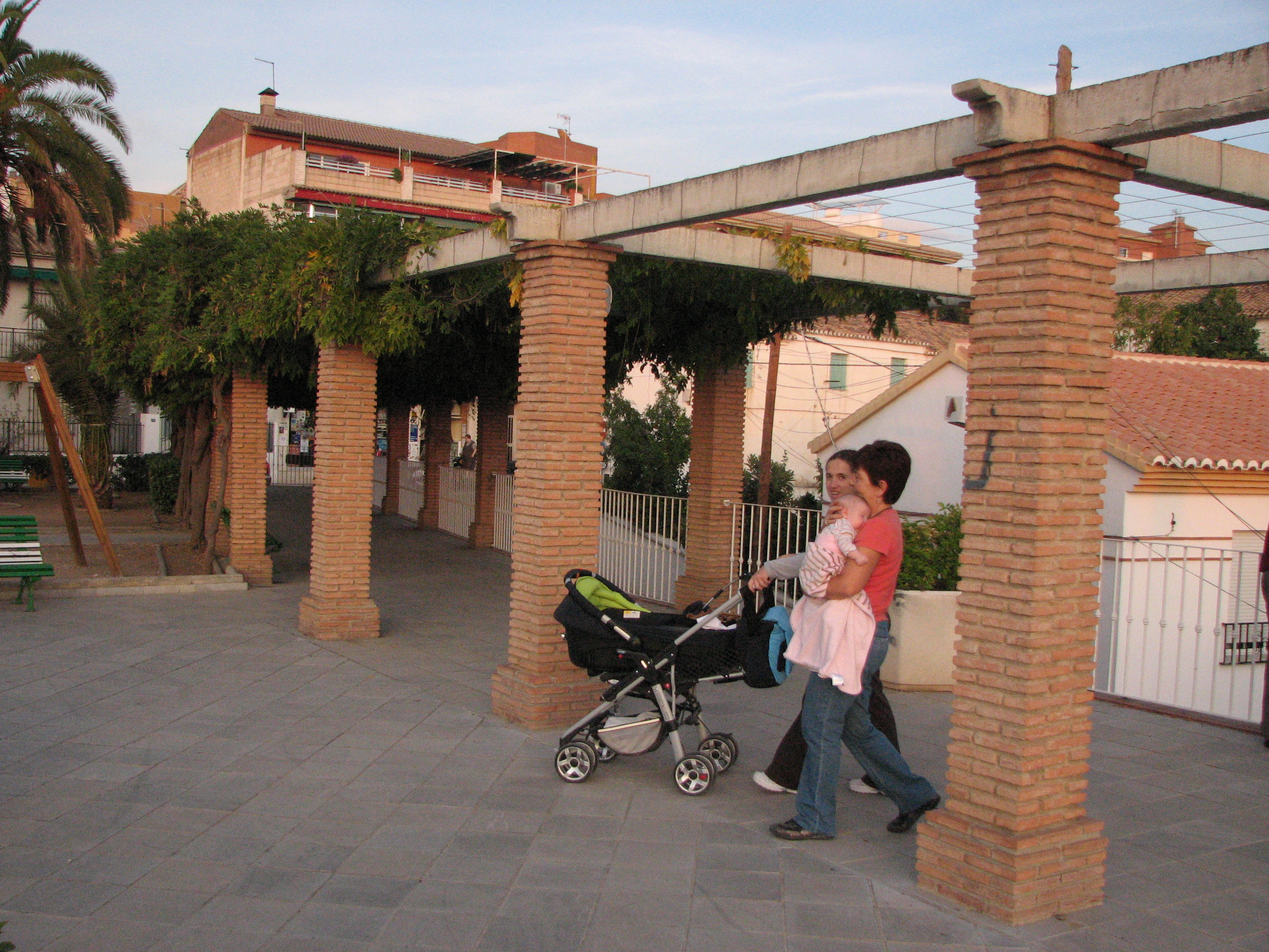 Pergola. Pergola formed by brick columns and concrete beams. Located at Huetor Vega. Granada. Spain